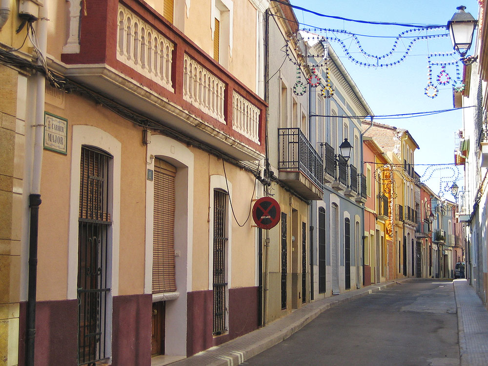 Main Street, Beniarbeig, county Marina Alta, Region of Valencia, Spain